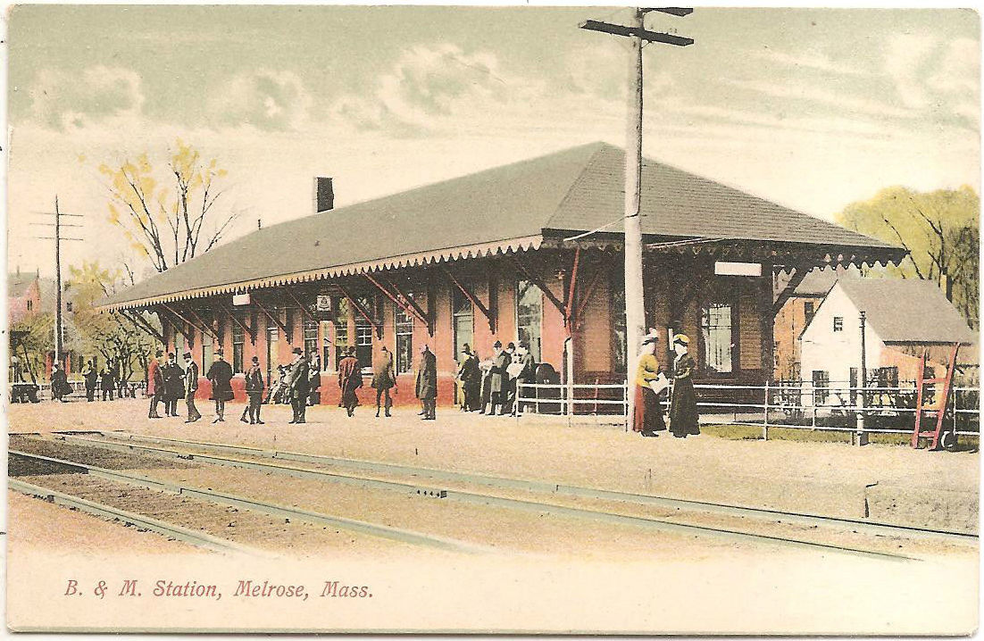 Early divided back postcard of Melrose station